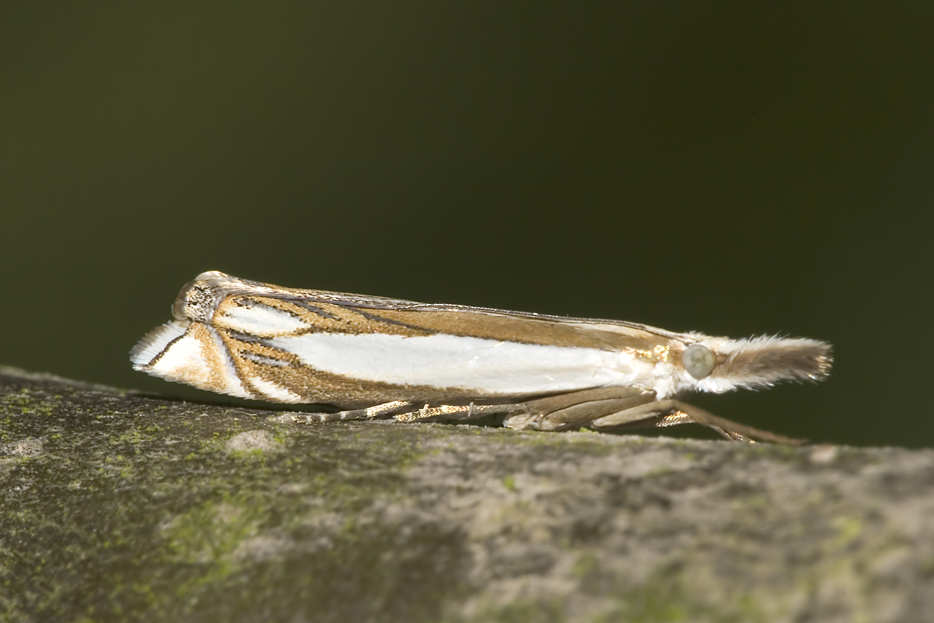 Crambus pascuella (Linnaeus, 1758) Location: Wechselburg, Am Rathaus (Saxony, Germany) 5/180L f22 Film / Speed: ISO 100 Comment: Canon Flash 580EX